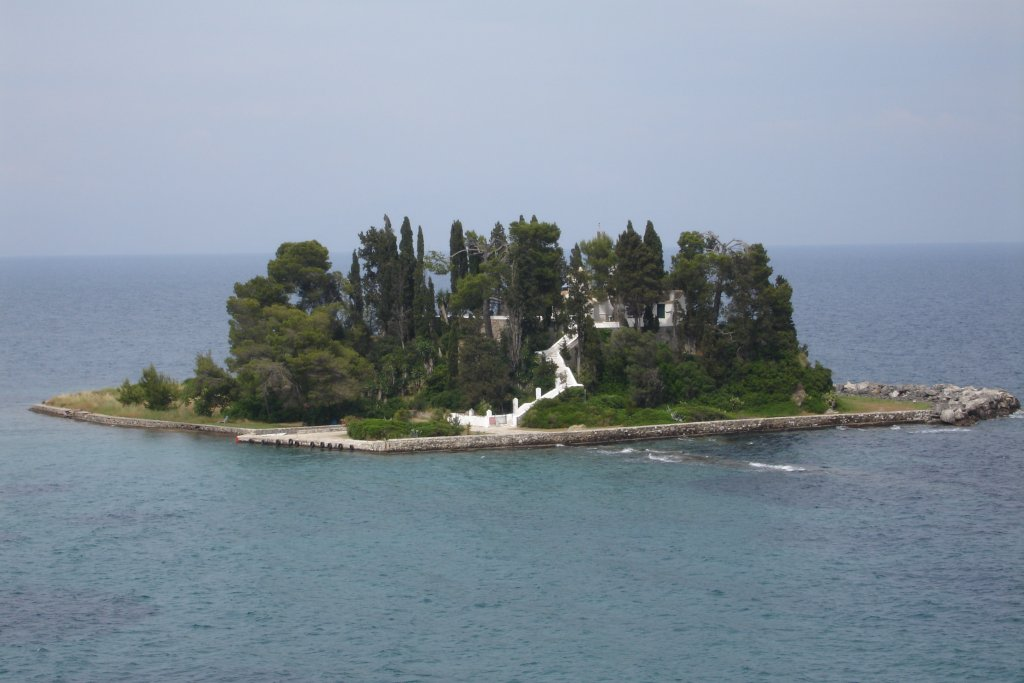 "Pontikonisi", a small island located opposite to "Kanoni". The location is about 5 km from the center of Corfu city, Corfu Island, Greece